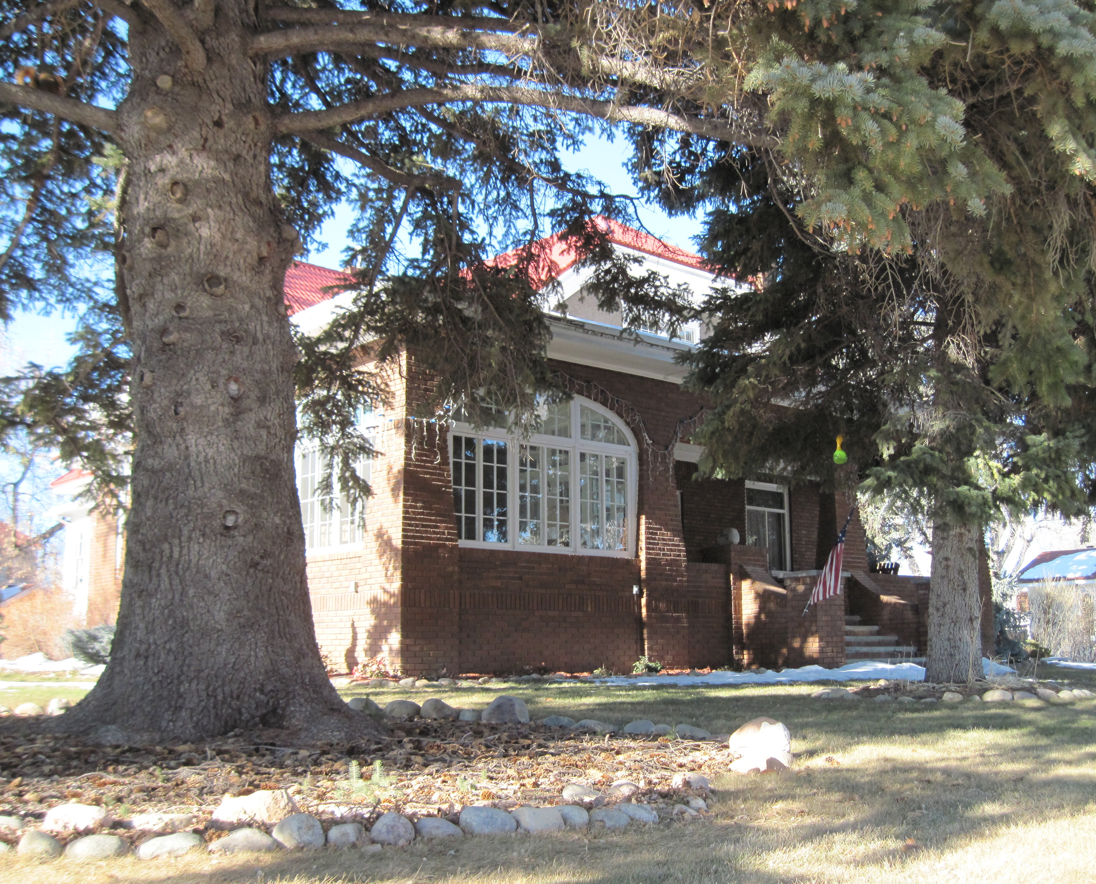 Residence in the Jackson Park Town Site Addition Brick Row. 677 South Third Street, Lander, Wyoming. Southeast elevation.